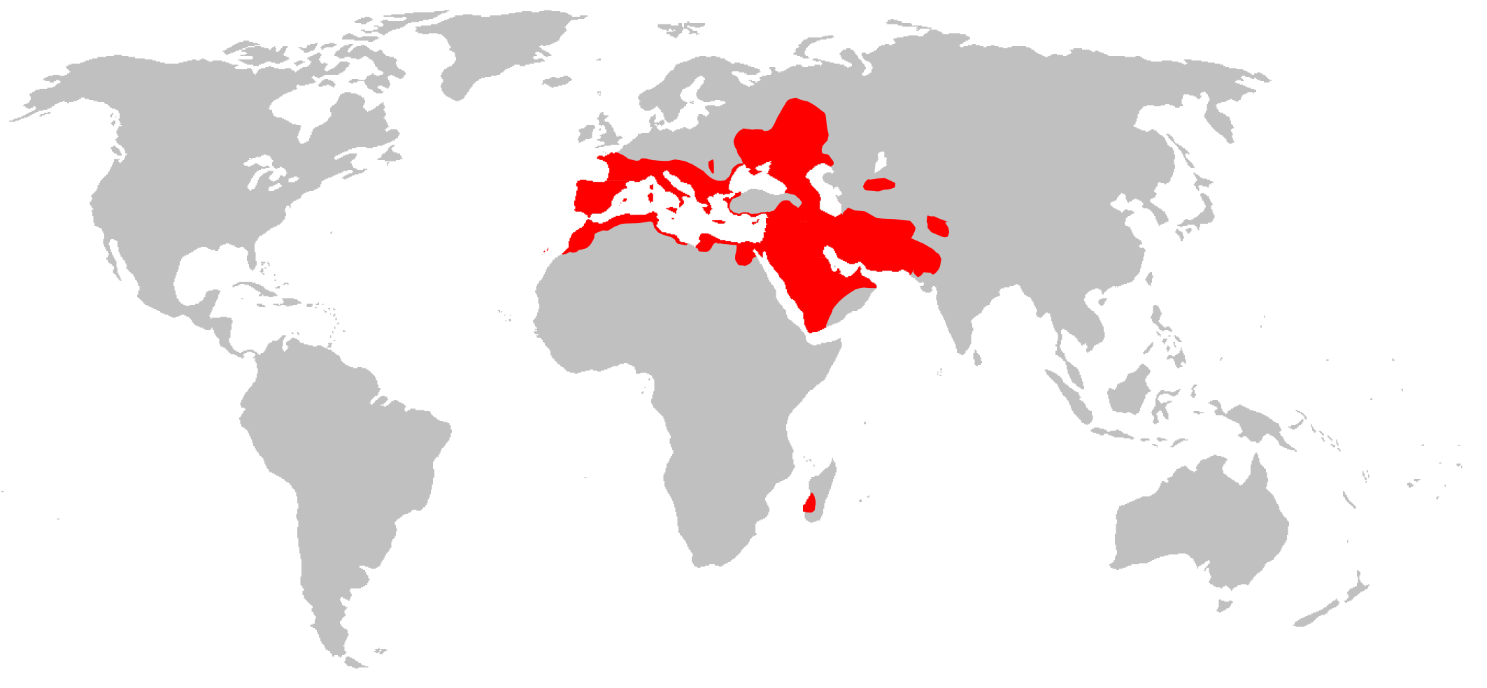 Pipistrellus kuhlii range map. The Madagascar area is aberrant (maybe P. hesperidus or something like that)